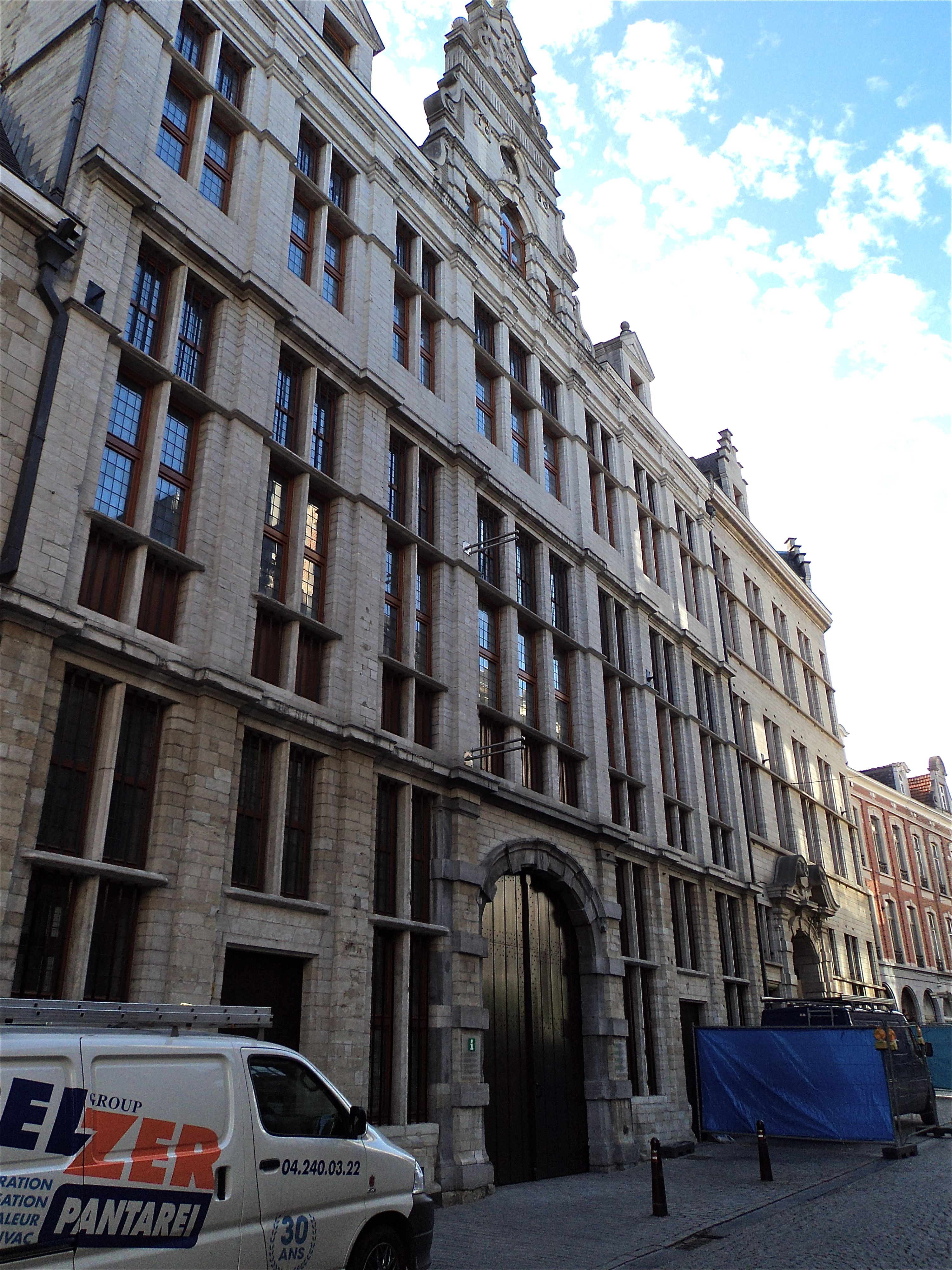 Naamsestraat 3, Leuven